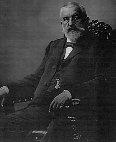 The german entrepreneur Friedrich Biermann(1837-1904)